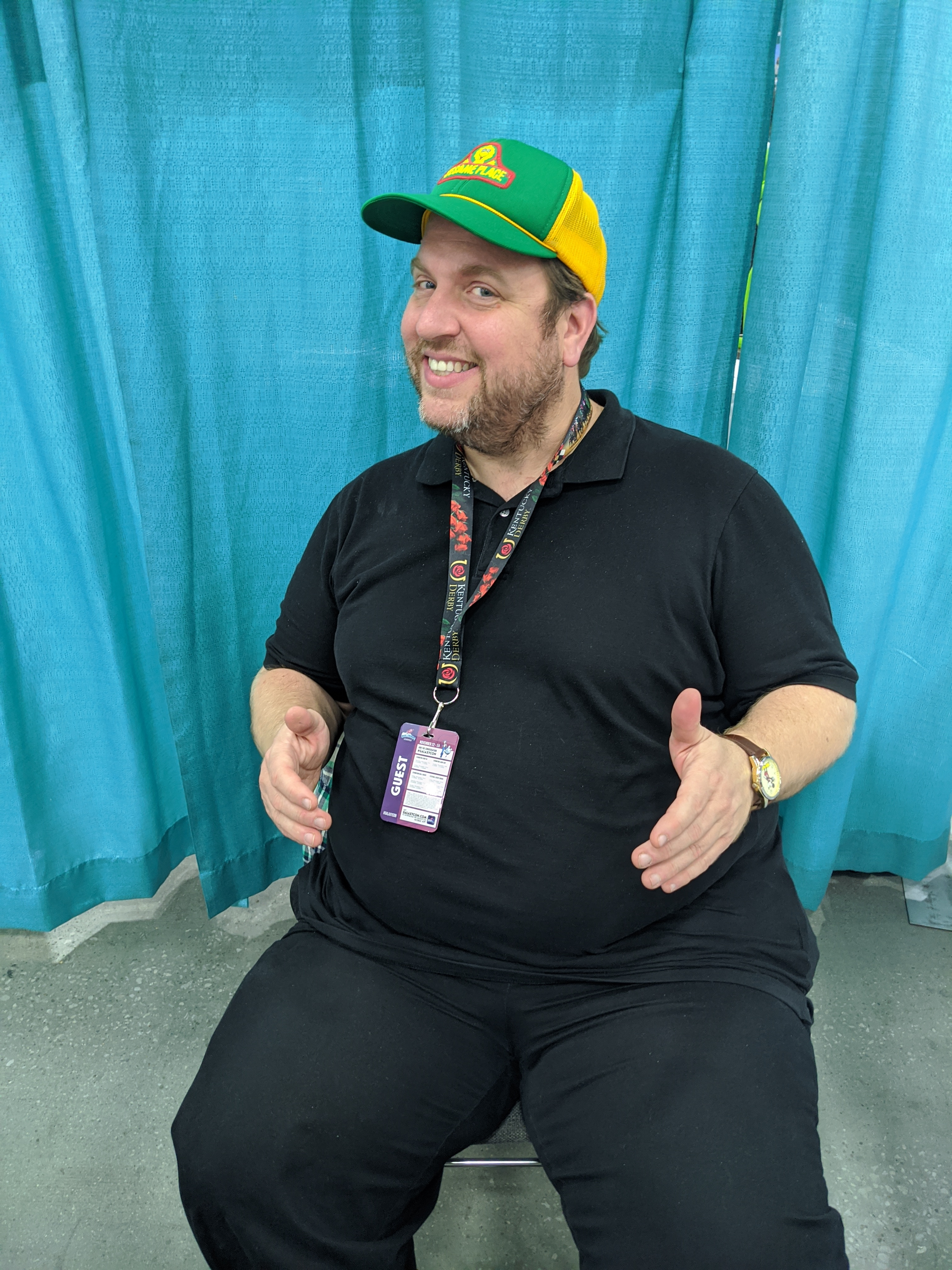 Guy Hutchinson at GalaxyCon Louisville in 2019